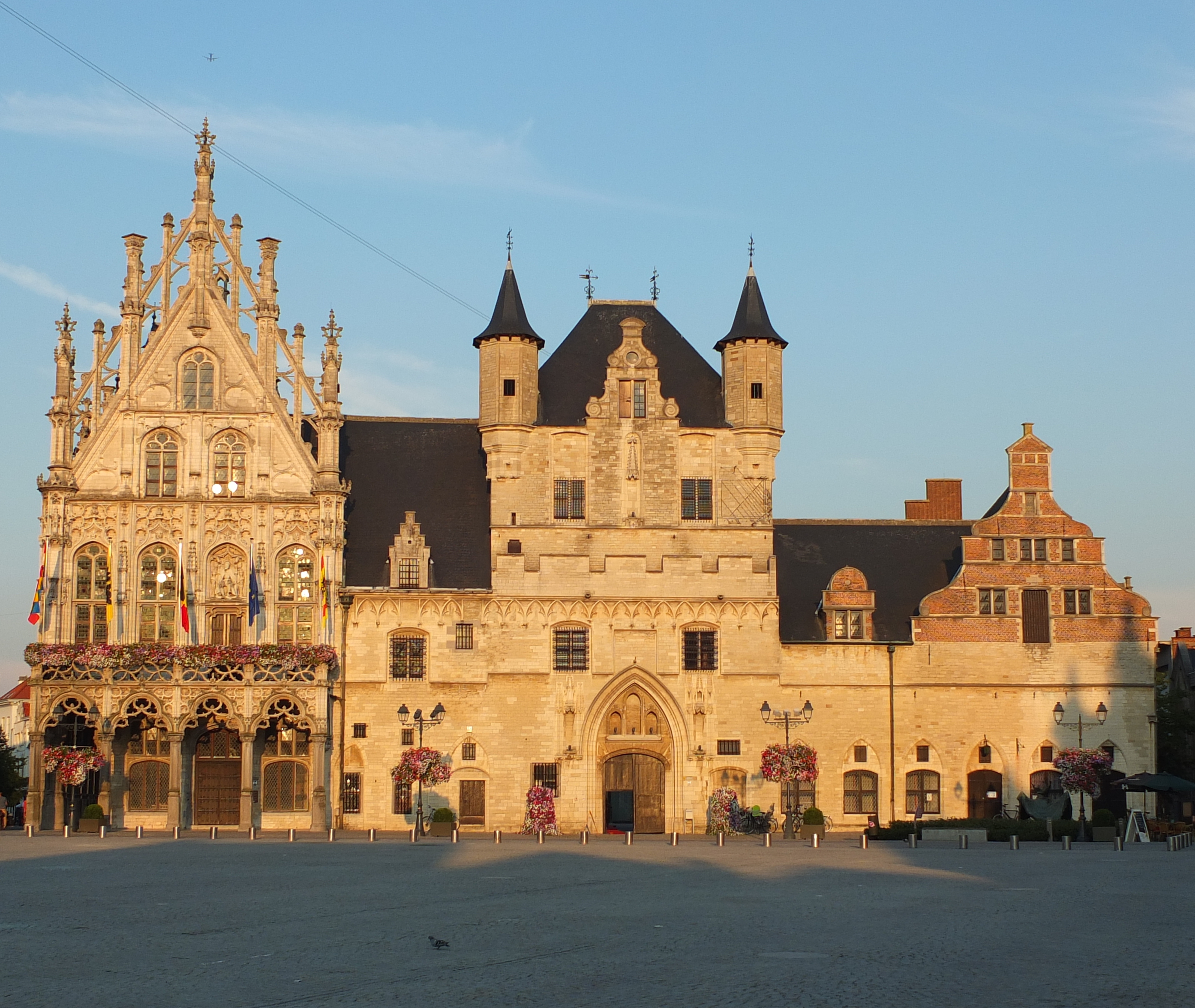 The City Hall of Mechelen, Flanders, Belgium.